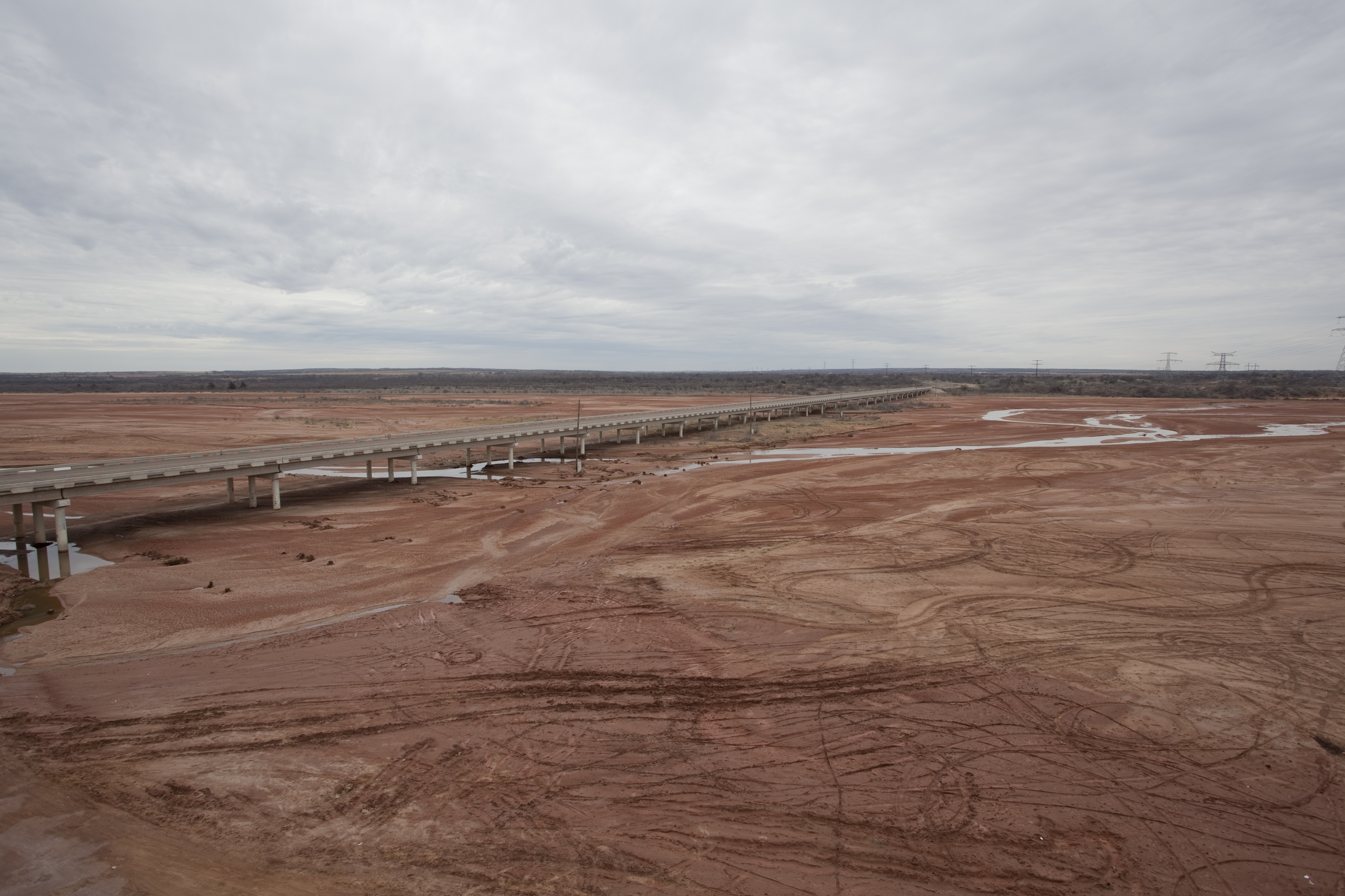 Prairie Dog Town Fork Red River in Childress County, Texas